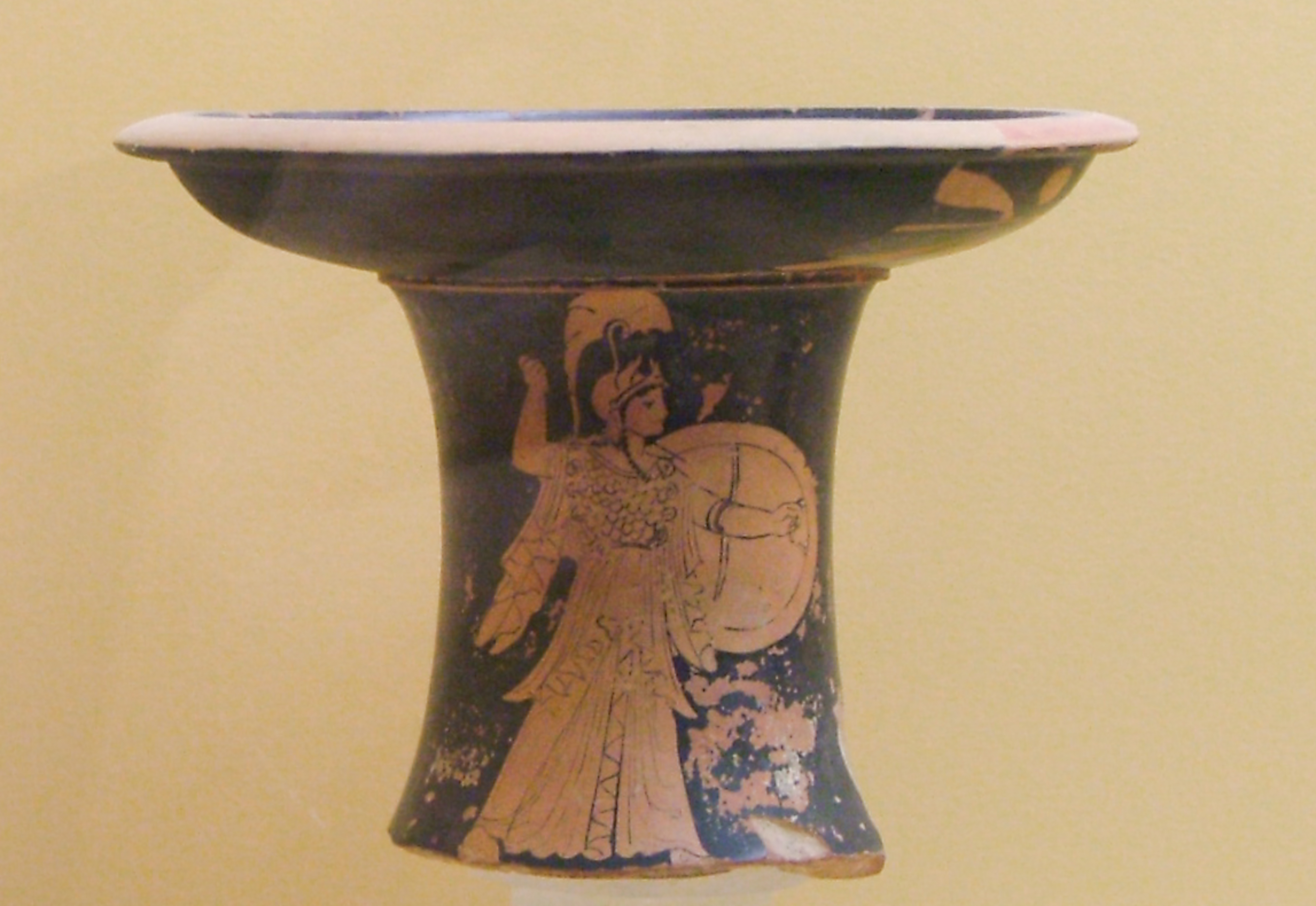 Fragment of an oinochoe illustrating Atena Promachos. C. 410 BC. Ancient Agora Museum in Athens.